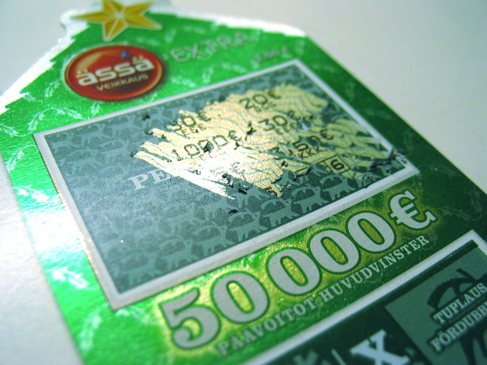 A Christmas themed Finnish scratch game "Ässä Extra".